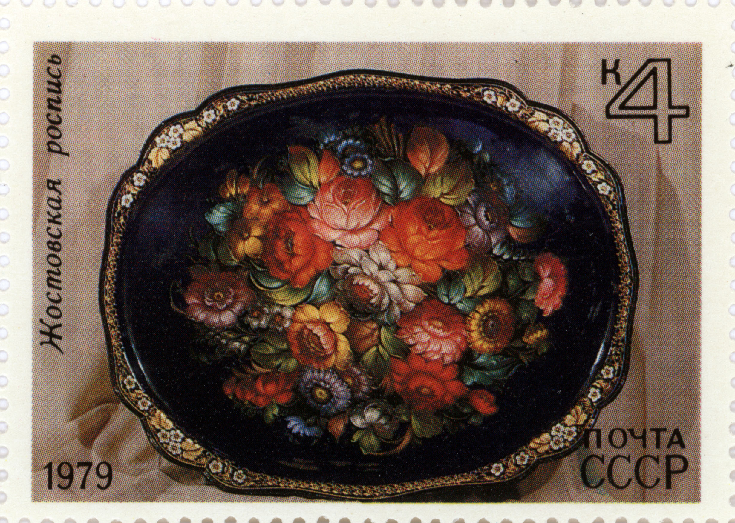 A USSR stamp depicting an example of Zhostovo painting